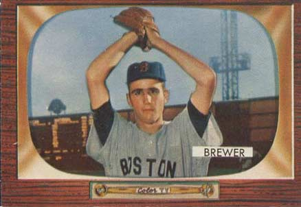 Major League Baseball player Tom Brewer in 1955.